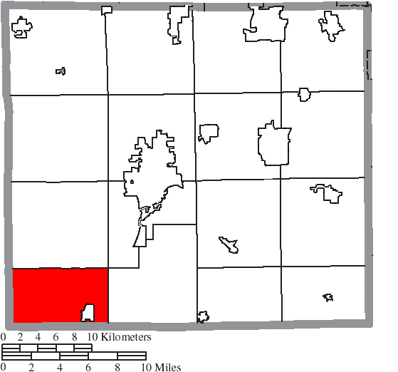 Map of the municipal and township boundaries of Wayne County, Ohio, United States, as of the 2000 census, with the location of Clinton Township highlighted. Township borders are shown only in unincorporated areas in order to differentiate incorporated and unincorporated areas more clearly.